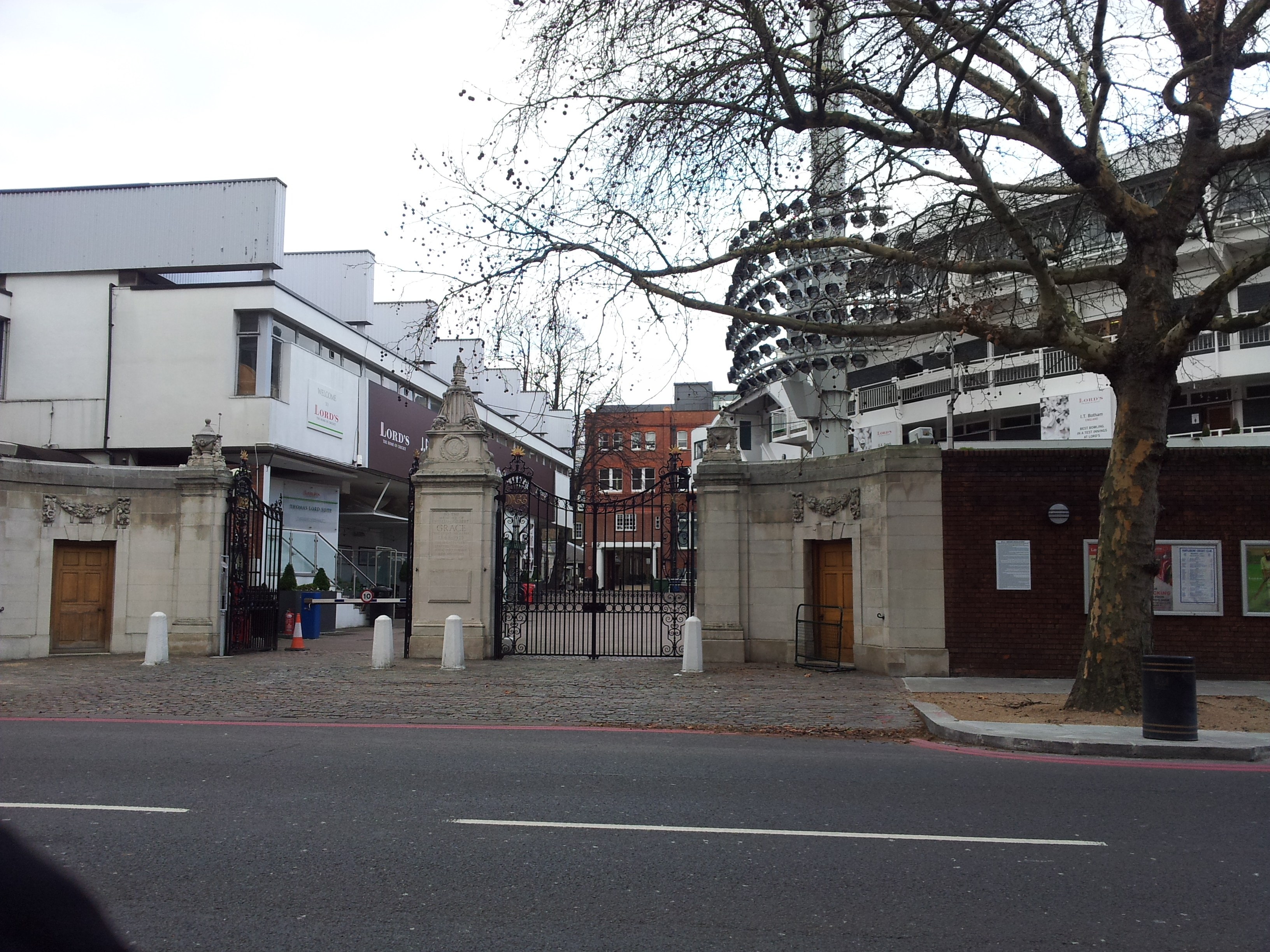 The Home of Cricket